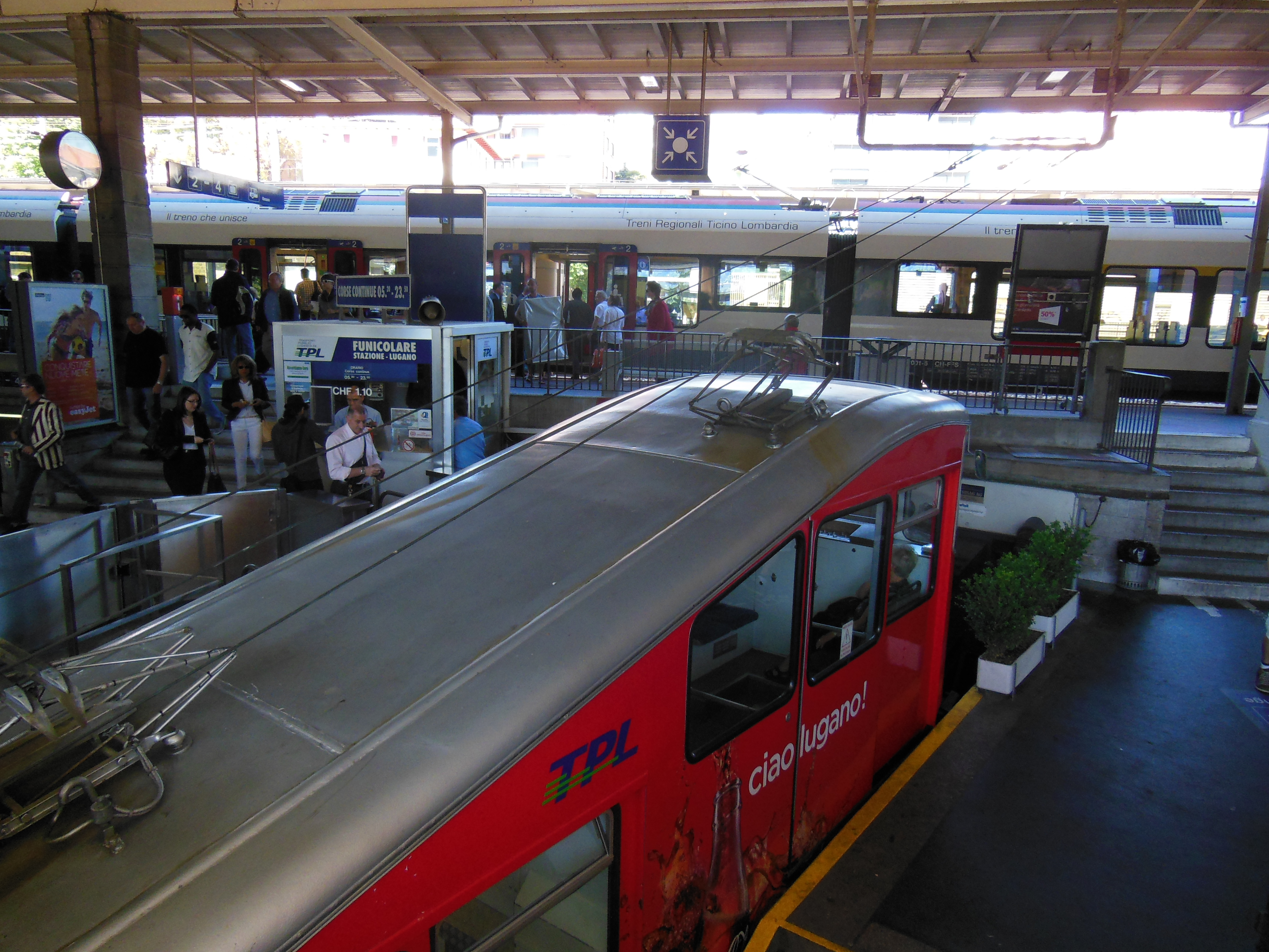 The Lugano Città–Stazione funicular at its upper terminus within Lugano railway station. A Swiss Federal Railway's RABe 524 train operating on the Treni Regionali Ticino Lombardia (TILO) service can be seen in the background. For more information, see the Wikipedia articles Lugano Città–Stazione funicular, Lugano railway station, SBB-CFF-FFS RABe 524 and Treni Regionali Ticino Lombardia.